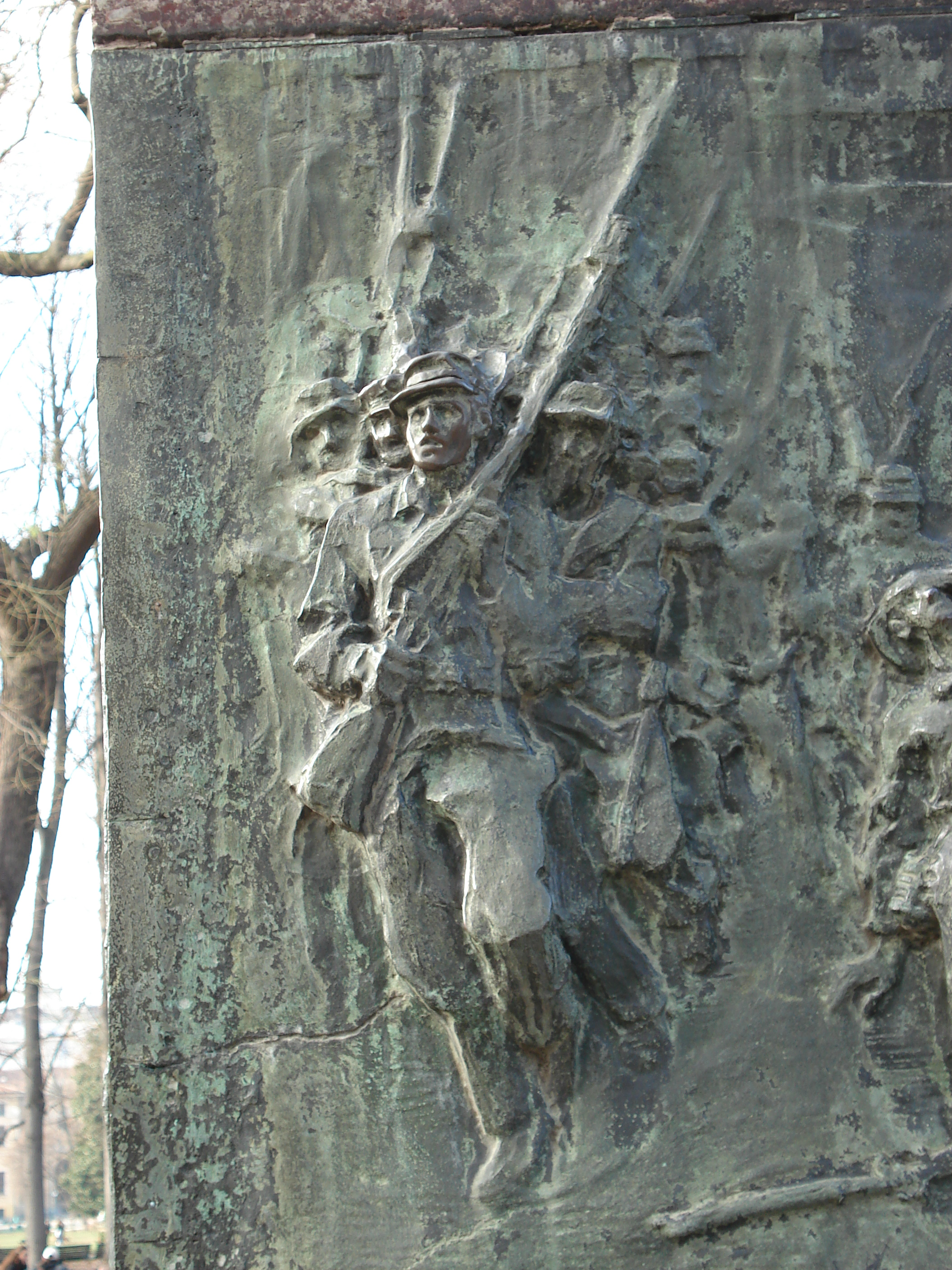 Detail (Garibaldi soldiers) from the monument by Enrico Butti for the Garibaldine general Giuseppe Sirtori (1892), in the "Giardini pubblici di Porta Venezia" gardens, in Milan, Italy. Picture by Giovanni Dall'Orto, december 20 2006.